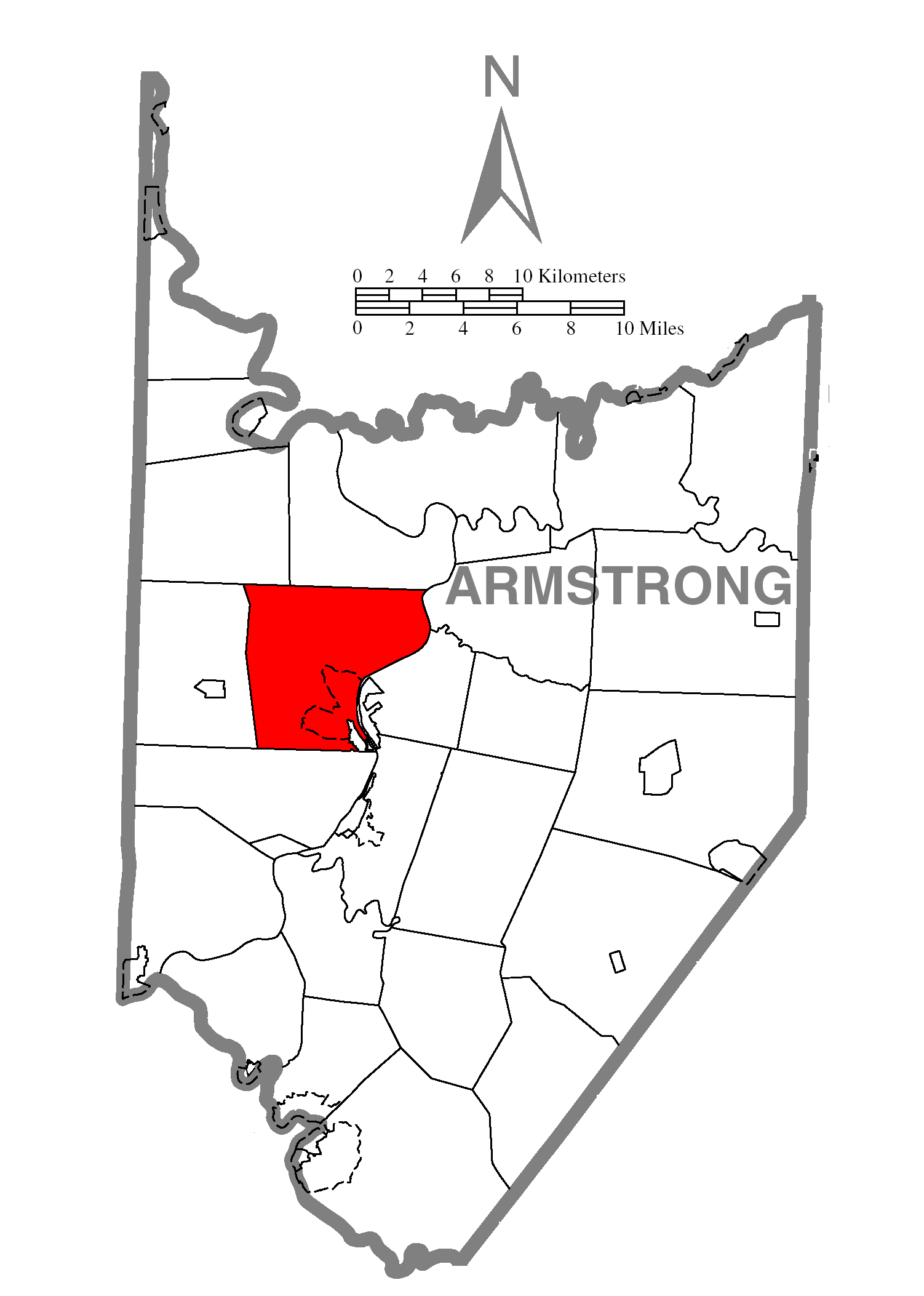 A map of Armstrong County showing East Franklin Township, Pennsylvania (alternate) highlighted on the map.